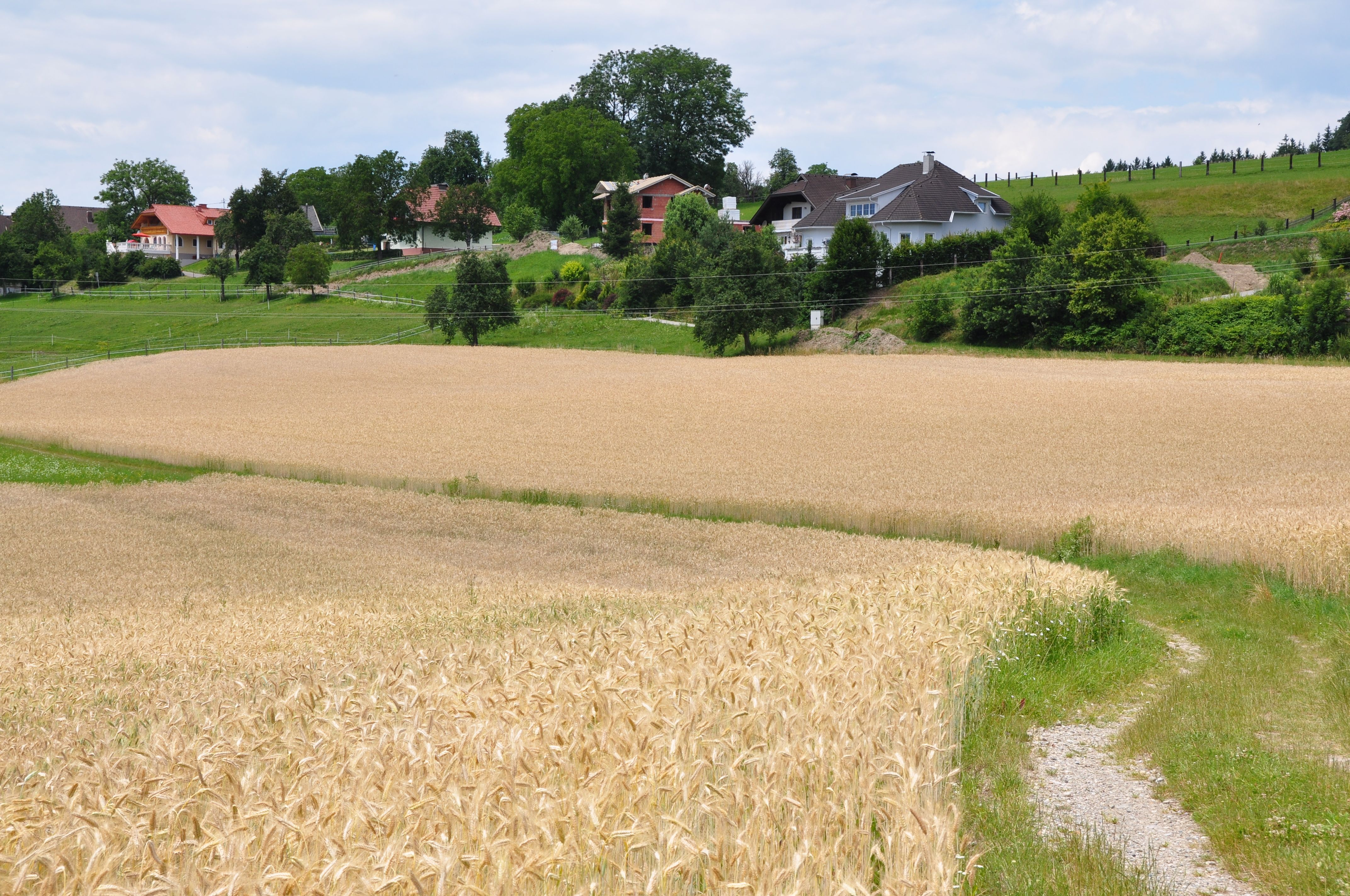 Barley field and view at new residential buildings at Goeriach, municipality Koettmannsdorf, district Klagenfurt Land, Carinthia, Austria, EU